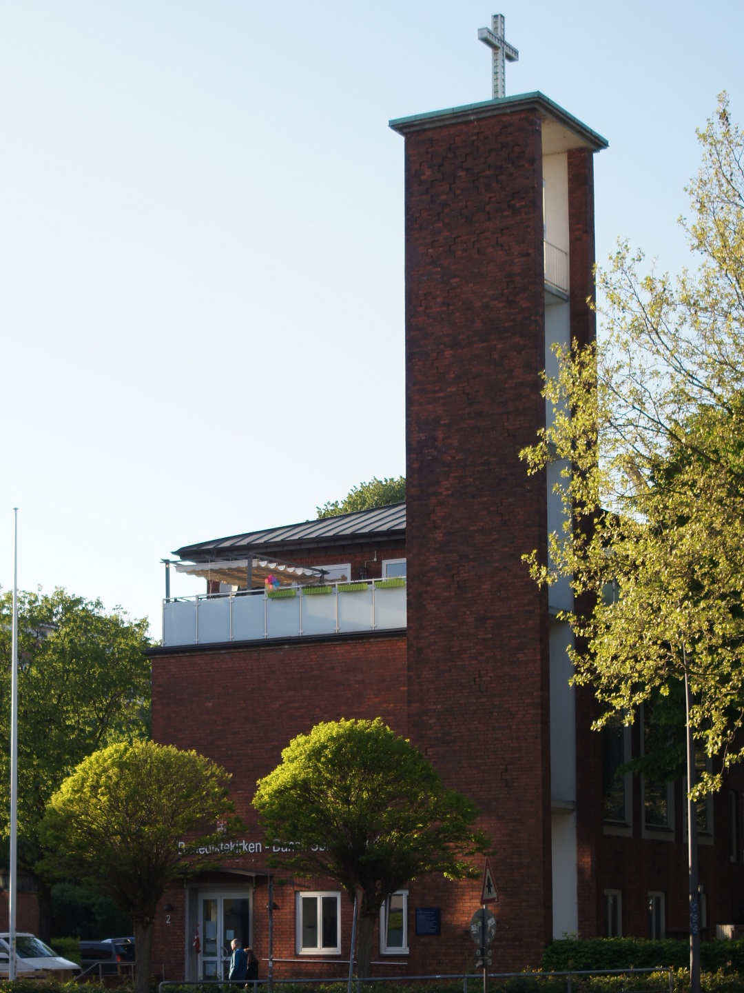 Benedikte Church, Danish seamans church in Hamburg